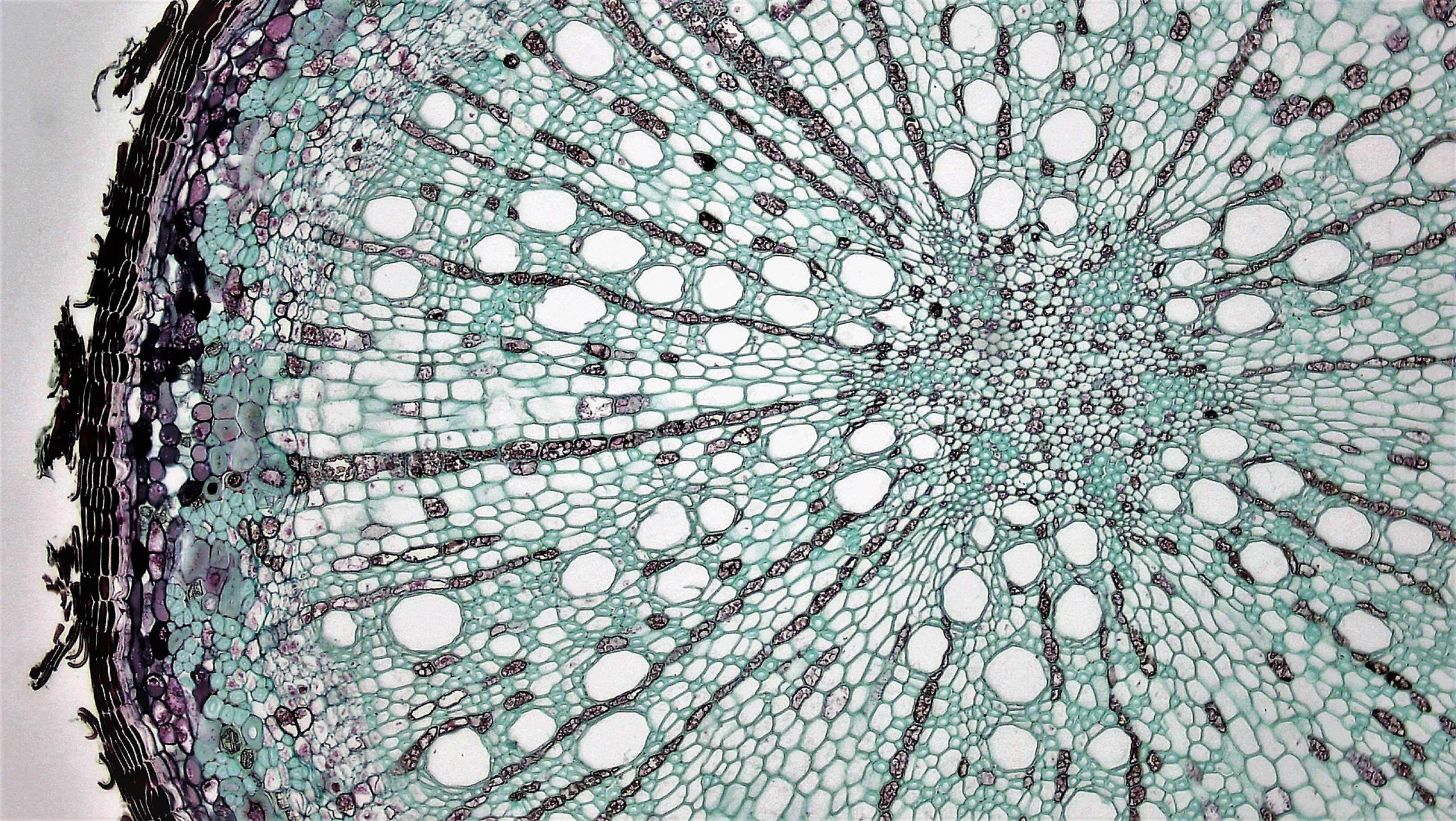 cross section: Older Quercus root magnification: 100x Berkshire Community College Bioscience Image Library In young roots, the vascular cylinder is surrounded by two rings of cells, the pericycle and endodermis, and above these layers the cortex and epidermis. In older roots underling activity of the cork cambium replaces the epidermal and cortical tissues with a protective zone of cork rich periderm. The outermost layer of periderm consists of layers of cork cells, the phellem, which produce the waterproofing substance suberin. Cork cells are dead at maturity. Deep to the phellem is a layer of living cork cambium or phellogen and just beneath that layers of cork parenchyma or phelloderm. Many cells in the periderm contain dark staining tannins. The vascular cylinder consists of an outer narrow ring of phloem,and deep to this, the vascular cambium. The vascular cambium remains active, producing annual growth of secondary phloem towards the outside of the root and secondary xylem towards center of the root. Because of greater production of xylem, the bulk of the vascular cylinder is dominated by radially arranged rays of secondary xylem interspaced with medullary rays of parenchyma cells. Annual growth rings of spring and summer wood is difficult to distinguish in roots Both the pericycle and endodermis, which wrap vascular cylinder in younger roots, are lost due to seasonal growth of the vascular cylinder, The center of the root is made up of primary xylem.